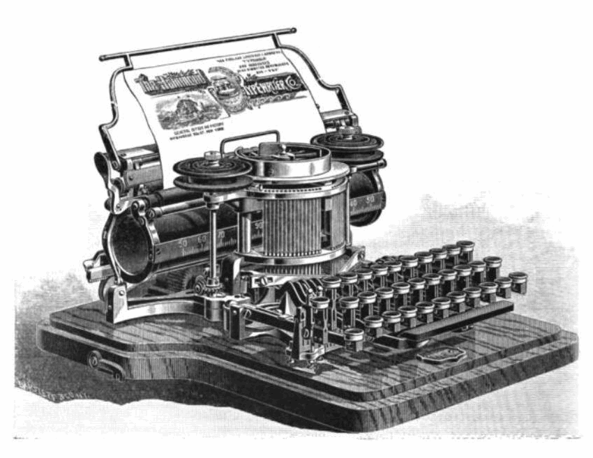 Woodcut of Hammond typewriter from 1890s, invented by American journalist James Bartlett Hammond in the 1870s and manufactured commercially starting in 1881-1884. This drawing is probably the Hammond No. 2, introduced around 1885. The ad copy in the drawing shows that it was from an advertisement. From the source p.881: 'It has 30 keys and two shifts...yielding 90 characters. The type are arranged on two type wheels, which together form the quadrant of a circle. The type wheels are arranged on a shaft which stands perpendicularly in the center of the disk...". The type wheels could be changed, allowing the machine to type in different fonts and languages. Instead of the type striking the ink ribbon against the paper, a hammer behind the page struck a rubber strip, driving the paper against the ribbon and type wheel. For more information see Hammond, Portable Typewriter website Alterations: Removed caption. Removed yellow discoloration from R edge of image.